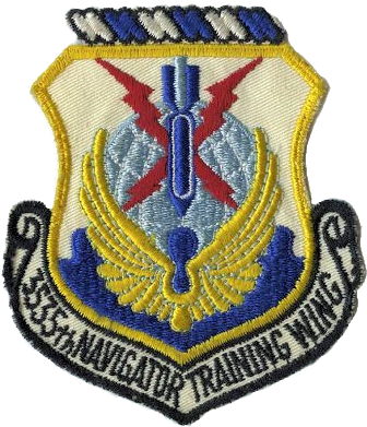 3555th Navigator Training Wing (Air Training Command)